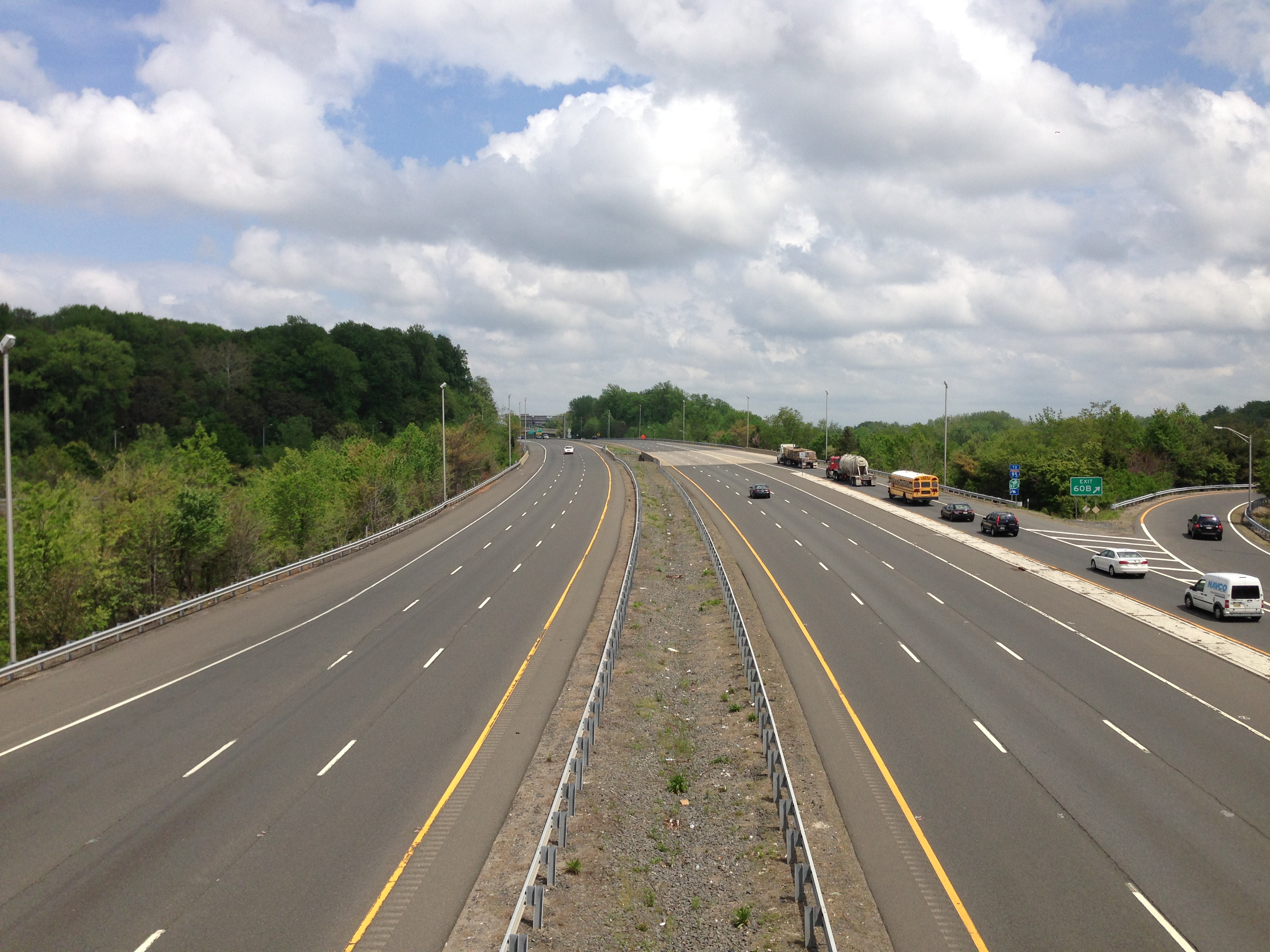 View east along Interstate 195 (Central Jersey Expressway) from the Interstate 295 (Camden Freeway) overpass in Hamilton Township, Mercer County, New Jersey